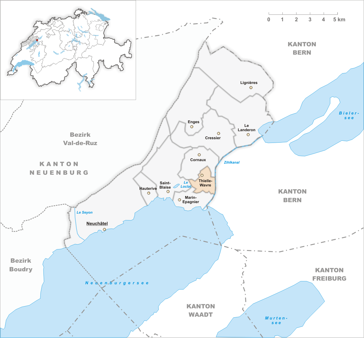 Municipality Thielle-Wavre